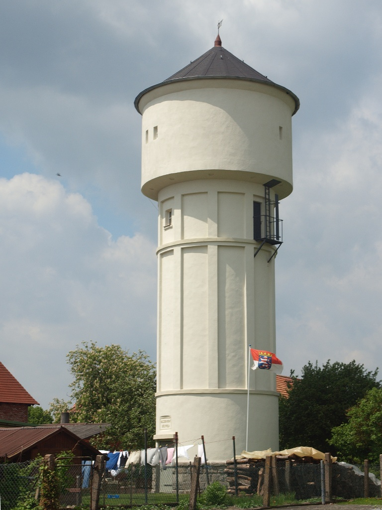 Water tower in Schenklengsfeld-Wüstfeld. Built in 1932